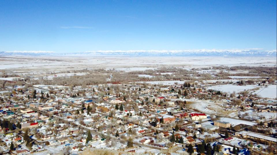 The town of Del Norte from Lookout Mountain, looking eastward towards the Sangre de Cristo range. Taken on a hike up to the summit of Lookout Mountain, also called 'D' Mountain by the locals for the white-colored 'D' painted on the mountain-side. This is at the top looking over the town of Del Norte, Colorado, looking towards the Sangre de Cristo Range (also called the Sangres) in the east.